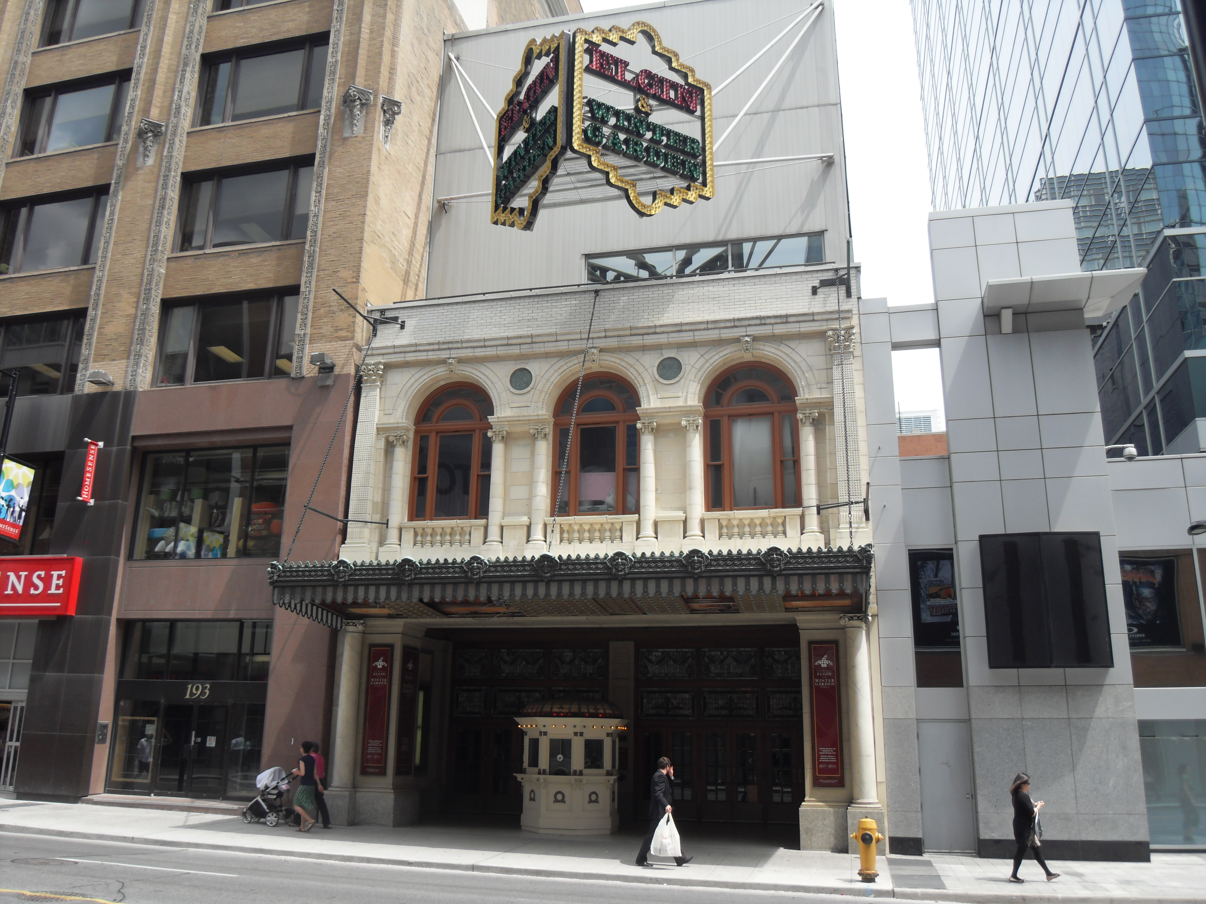 189 Yonge Street Toronto M5B 1M4 Opened in 1913 More information at Cinema Treasures